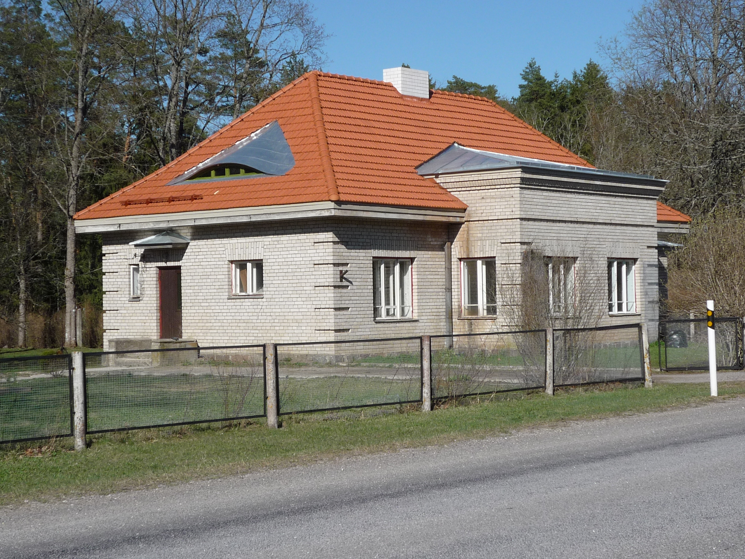 Koikse old railway station. View from former railway embankment. Rapla county, Estonia.